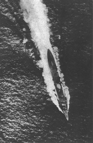 Japanese heavy cruiser Chikuma under attack by U.S. carrier aircraft on October 26, 1942. White spot in the center of the ship is where a bomb has just hit.